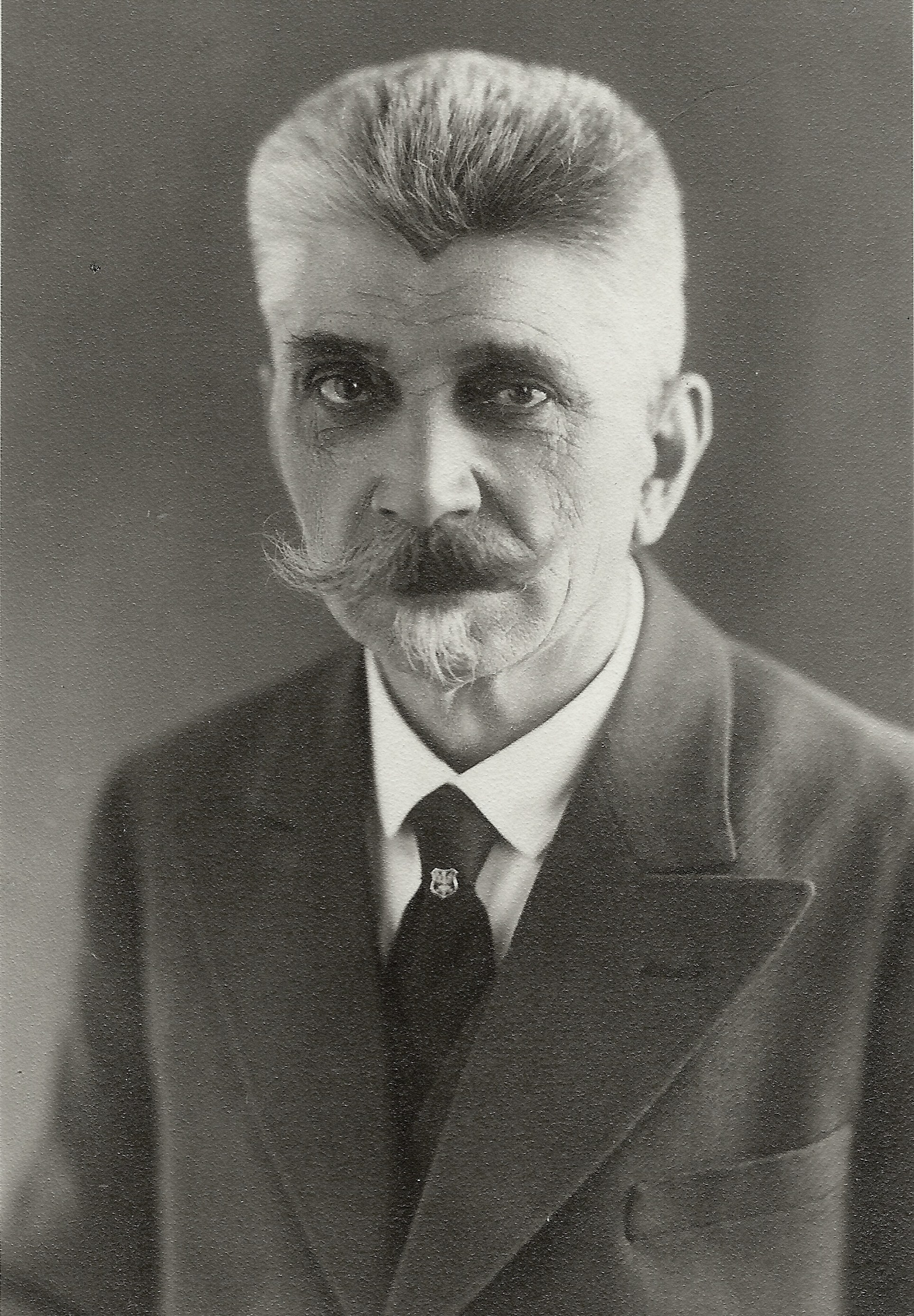 Stanislaw Kochowicz (1873–1948) – polish activist